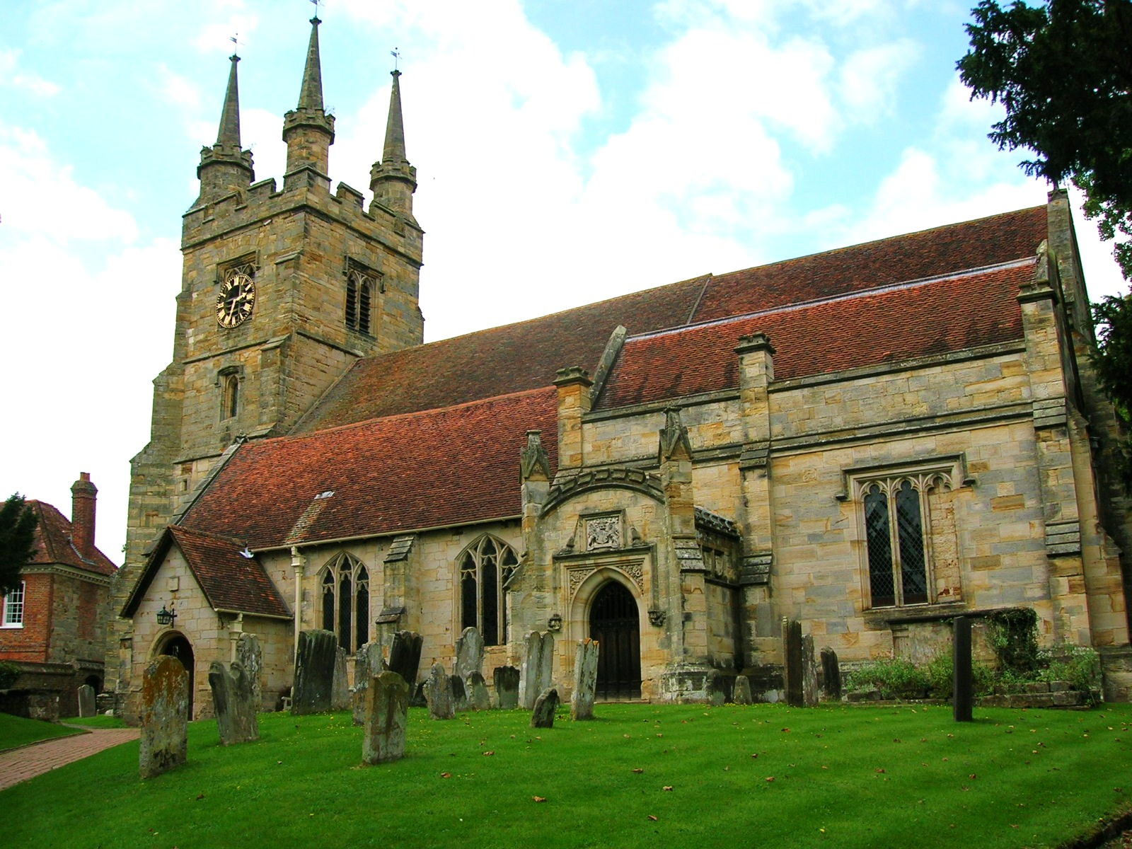 St John the Baptist parish church, Penshurst, Kent, seen from the southeast